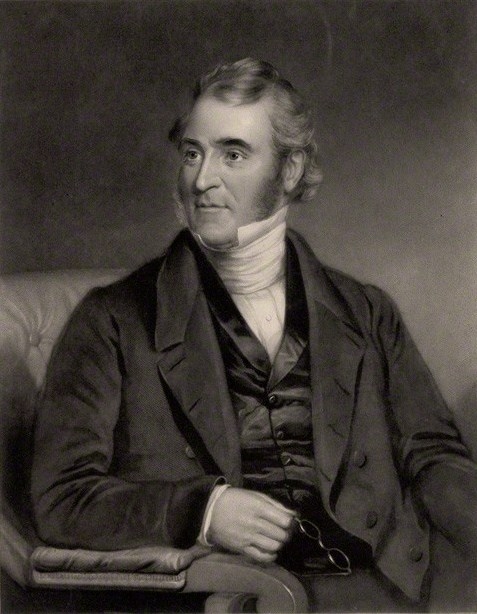 Portrait of John Morison (1791 - 1859), English congregational minister.